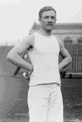 Albert Louis Coray, later named Albert L. Corey, Athlet and medalwinner at the 1904 Olympic Games photography, adapted reproduction, no restrictions on use Copyright: free of charges